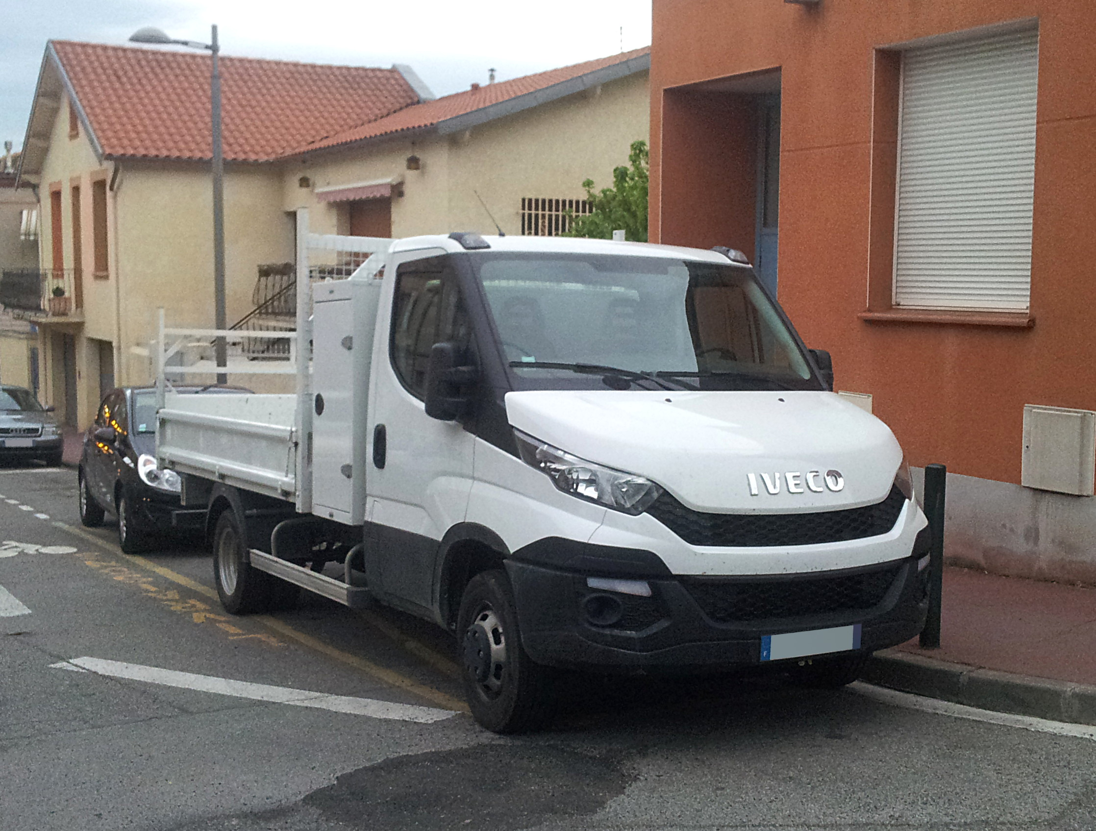 2015 Iveco Daily: Chassis Cab model.